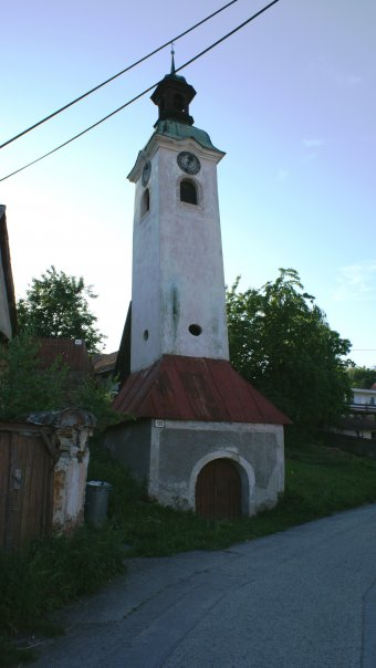 Haban (Anabaptist) chaple in Sobotište